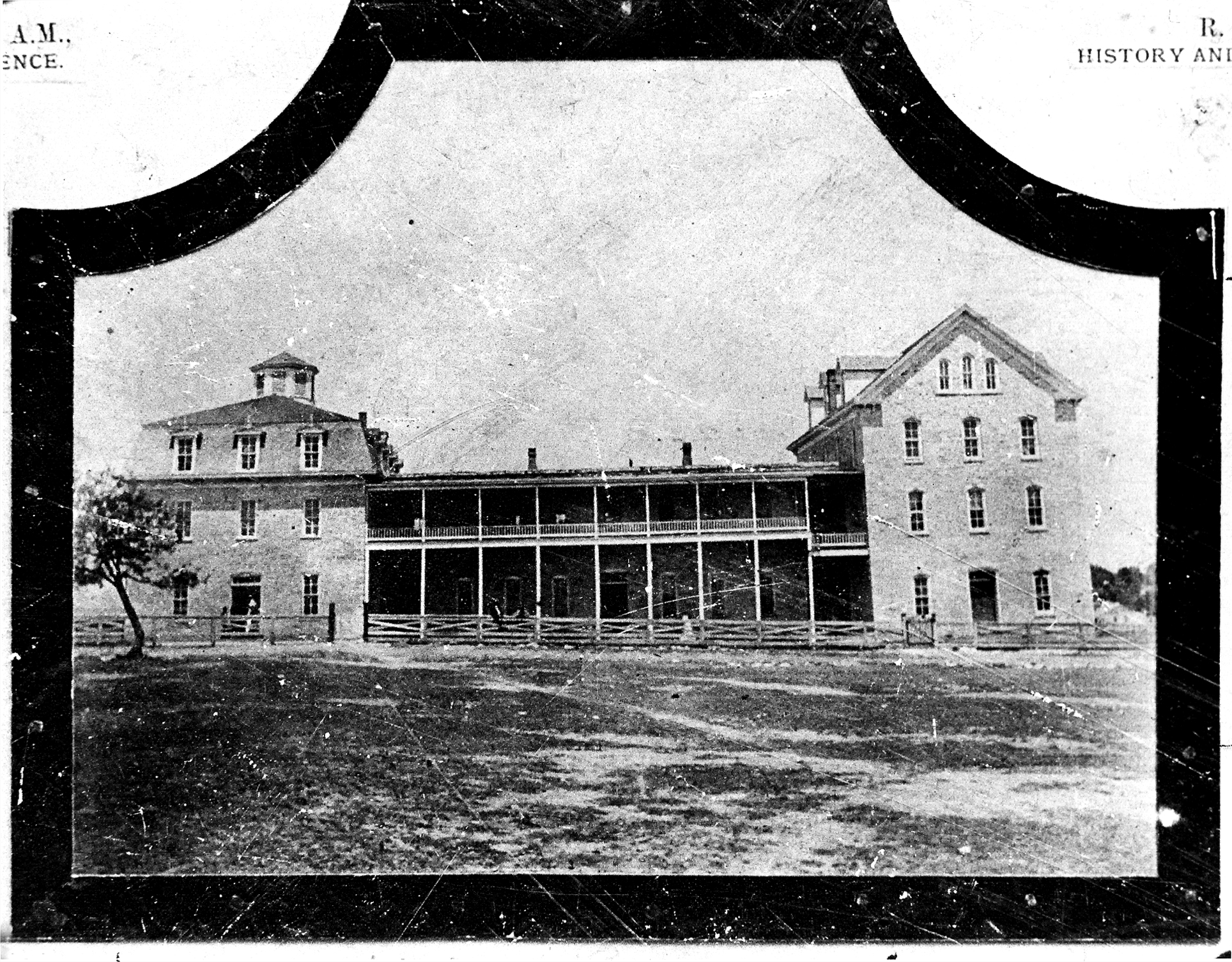 Texas Christian University Thorp Spring, Texas, campus.